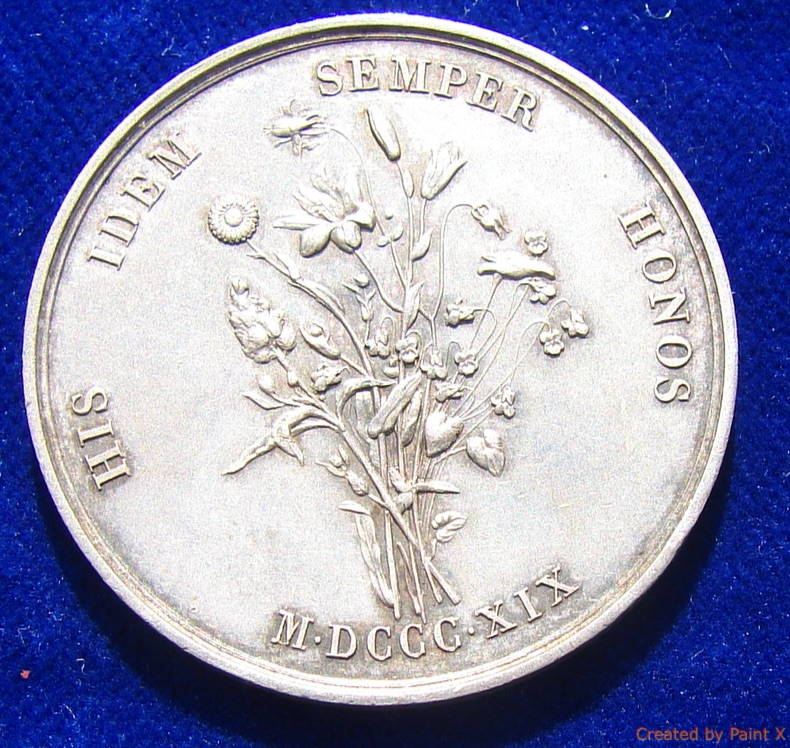 Toulouse France Silver Medal 1819 Clémence Isaure Medallion d.= 35 mm. 18.02 g Silver. Isaure, Clémence, Restorer of the Jòcs Florals (Jeux Floraux at Toulouse), 1450 Toulouse - ca. 1500 Portrait l., around: "CLEMEN · ISAURA LUD · RESTAURATRIX ·"/ Fowers, around: "HIS IDEM SEMPER HONOS M· DCCC· XIX". Wurzbach 3904 (Bronze). Medallist: (Joseph) Eugène Dubois, 1795 Paris - 1863 Lignières (Cher). Condition: VERY FINE+, old patina.